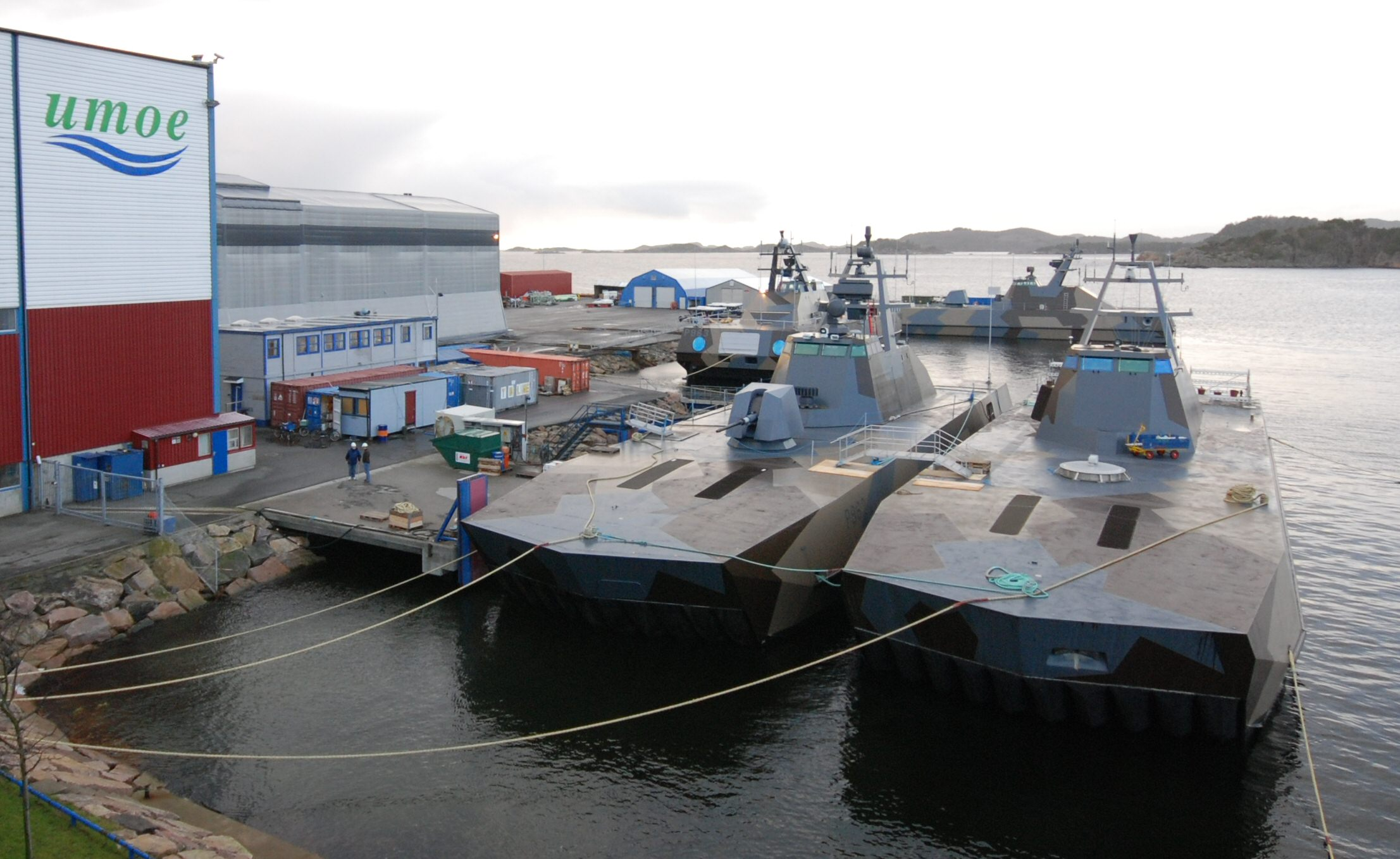 4 Skjold class craft in harbor